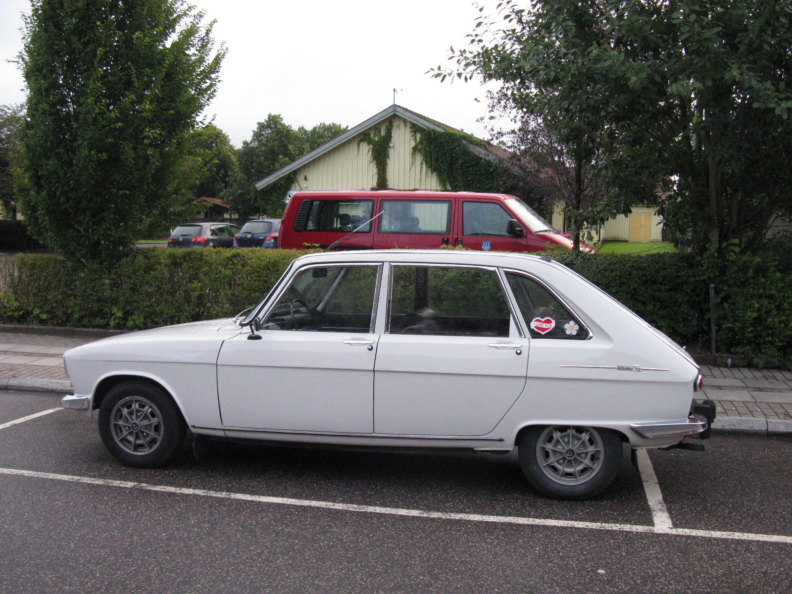 1968 Renault 16 (R 1150) in Sweden, 54cv 1470cc engine, chassis number 0910018. One owner from 1968 until 2009!